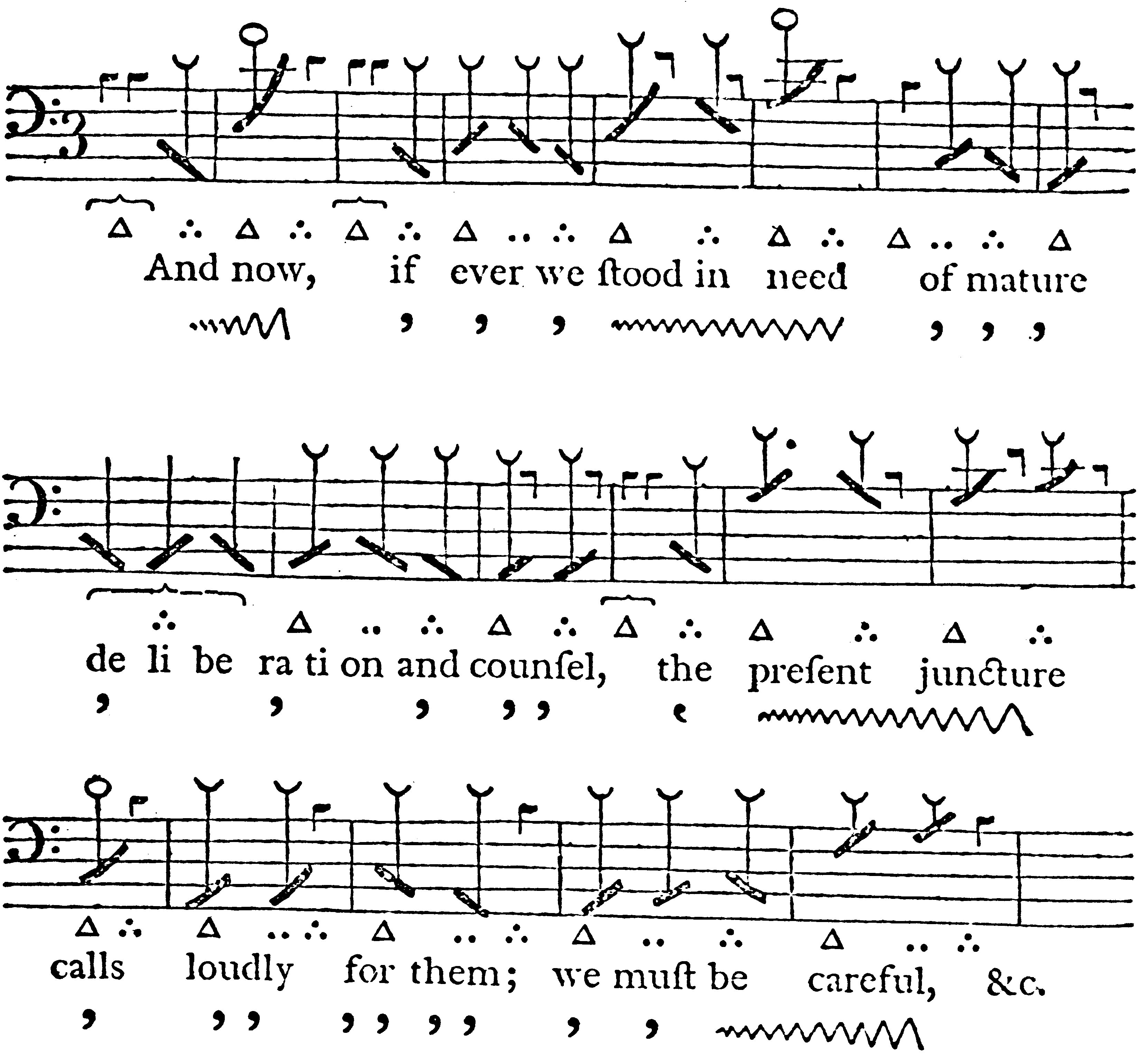 An example of Joshua Steele's "peculiar symbols" from Prosodia Rationalis (1779) page 51.